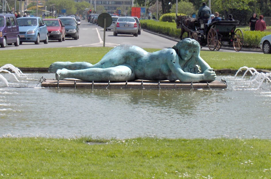 De Zee, sculpture by the sculptor Georges Grard (1901-1984); Leopoldpark, Ostend, Belgium